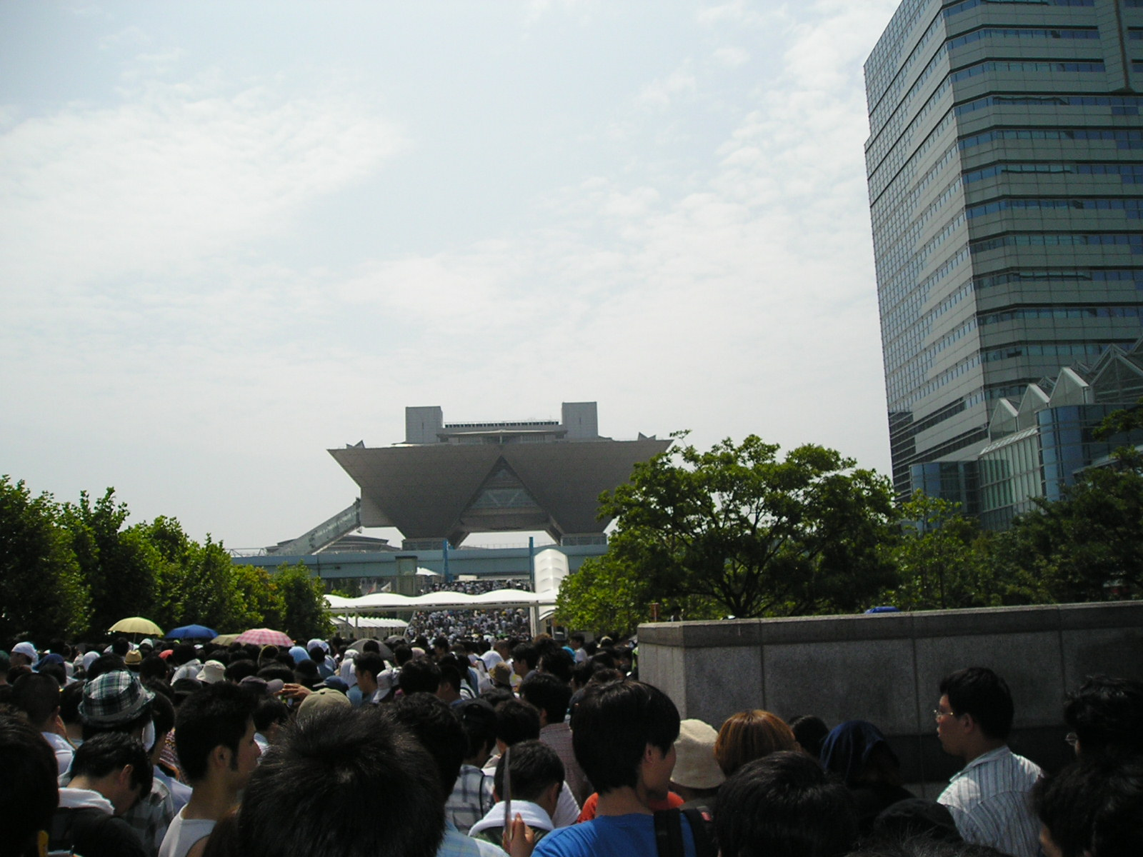 Entrance stand by row of Comic Market 68.